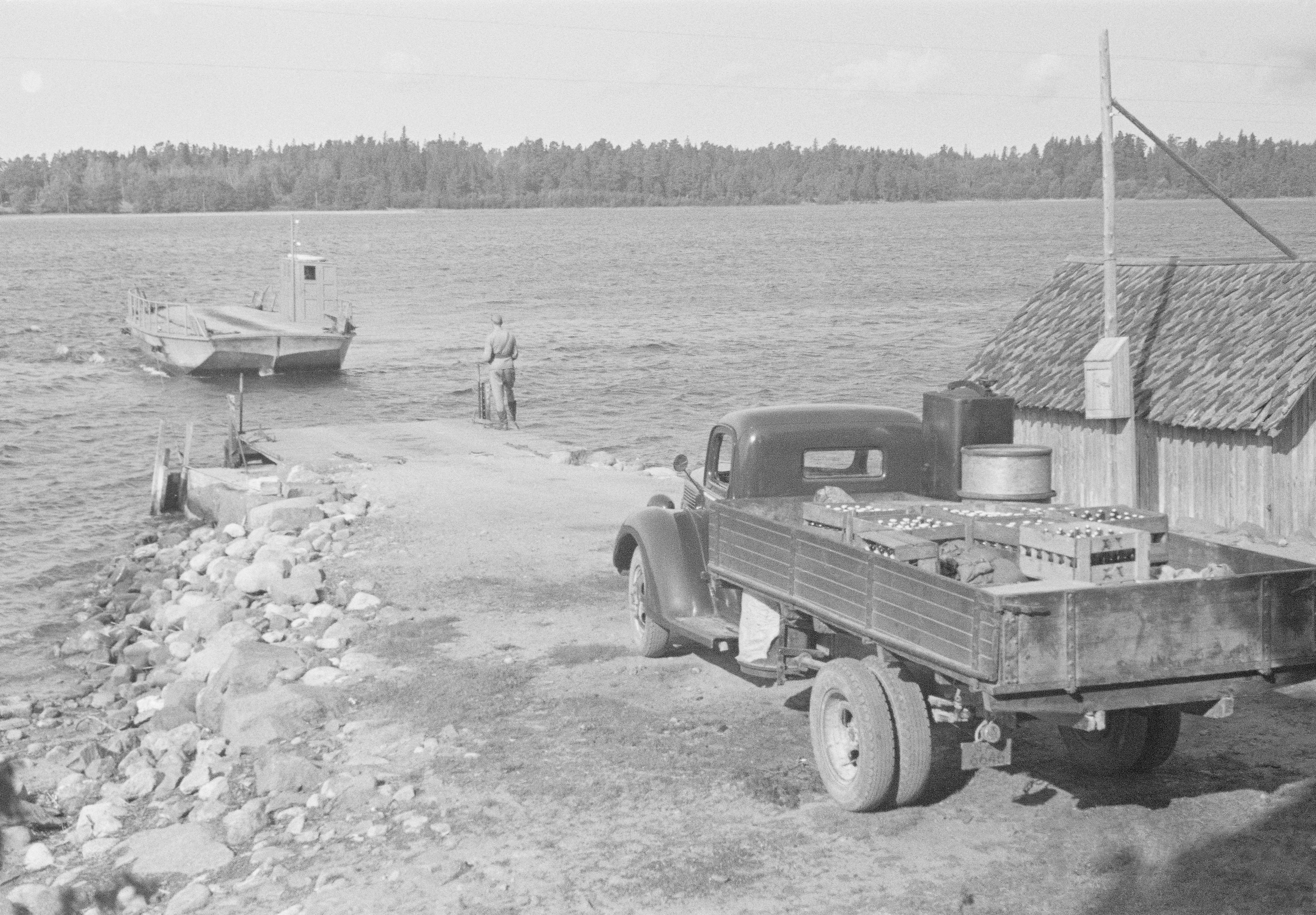 "The cantine business: The lorry is about to cross the sea by ship (to Eckerö)". Picture by Fenrik L. Zilliacus.